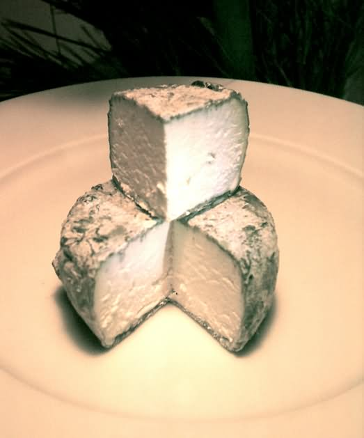 Cabri gatineu, small french goats' cheese, 45% fat in dry matter. Produced in Ste-Anne. photo taken by Dominik Hundhammer, München, Dec. 20, 2005.